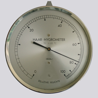 Hair tension hygrometer. Made in East Germany